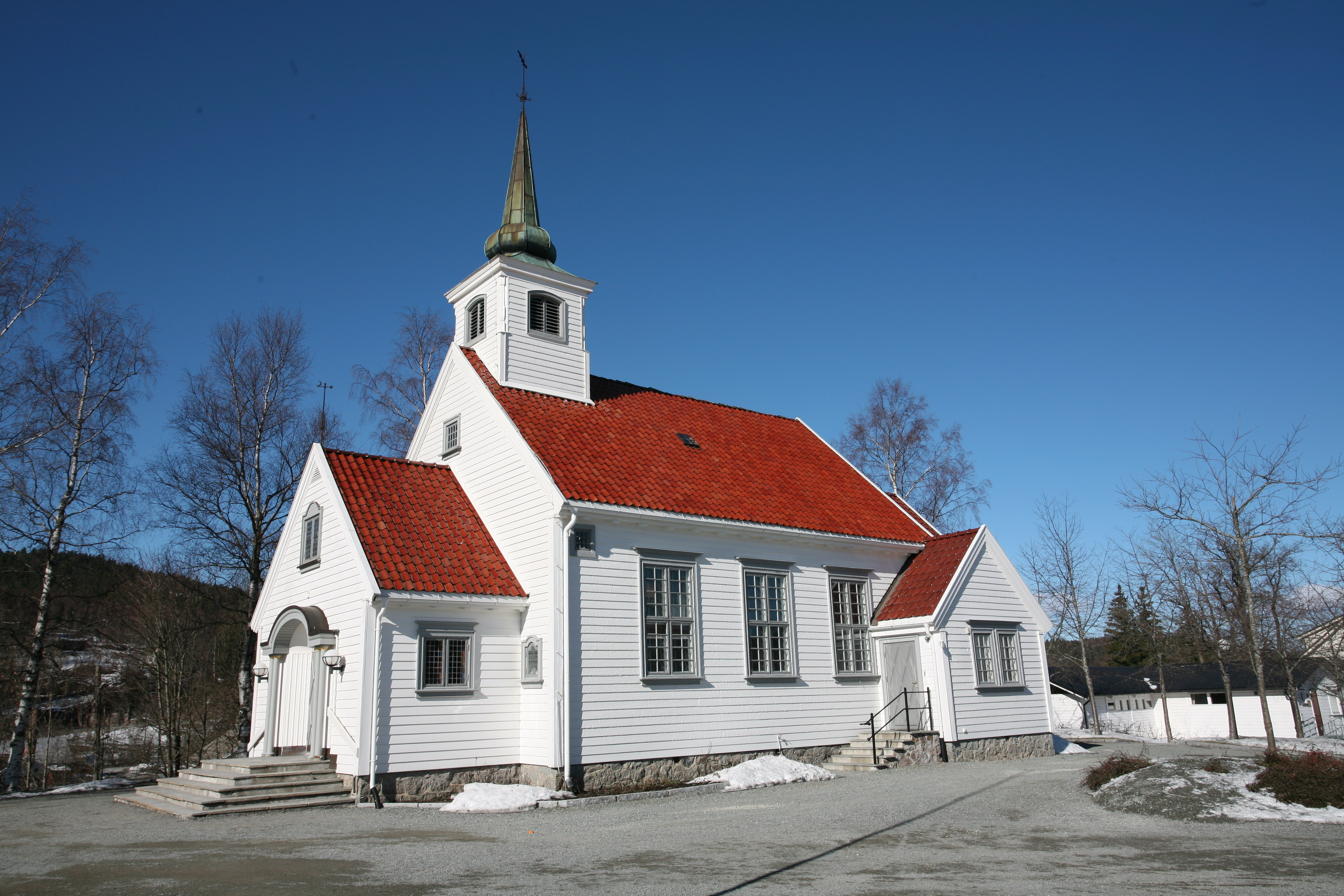 Picture of Heggedal Kirke (Akershus - Norway)